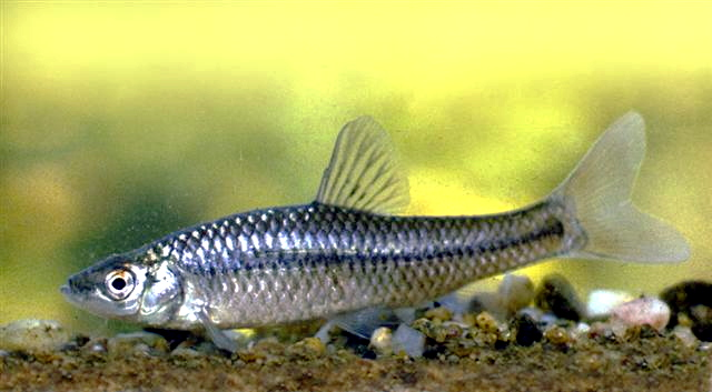 Pseudorasbora parva photographed in Tiszafüred, river Tisza, Hungary.